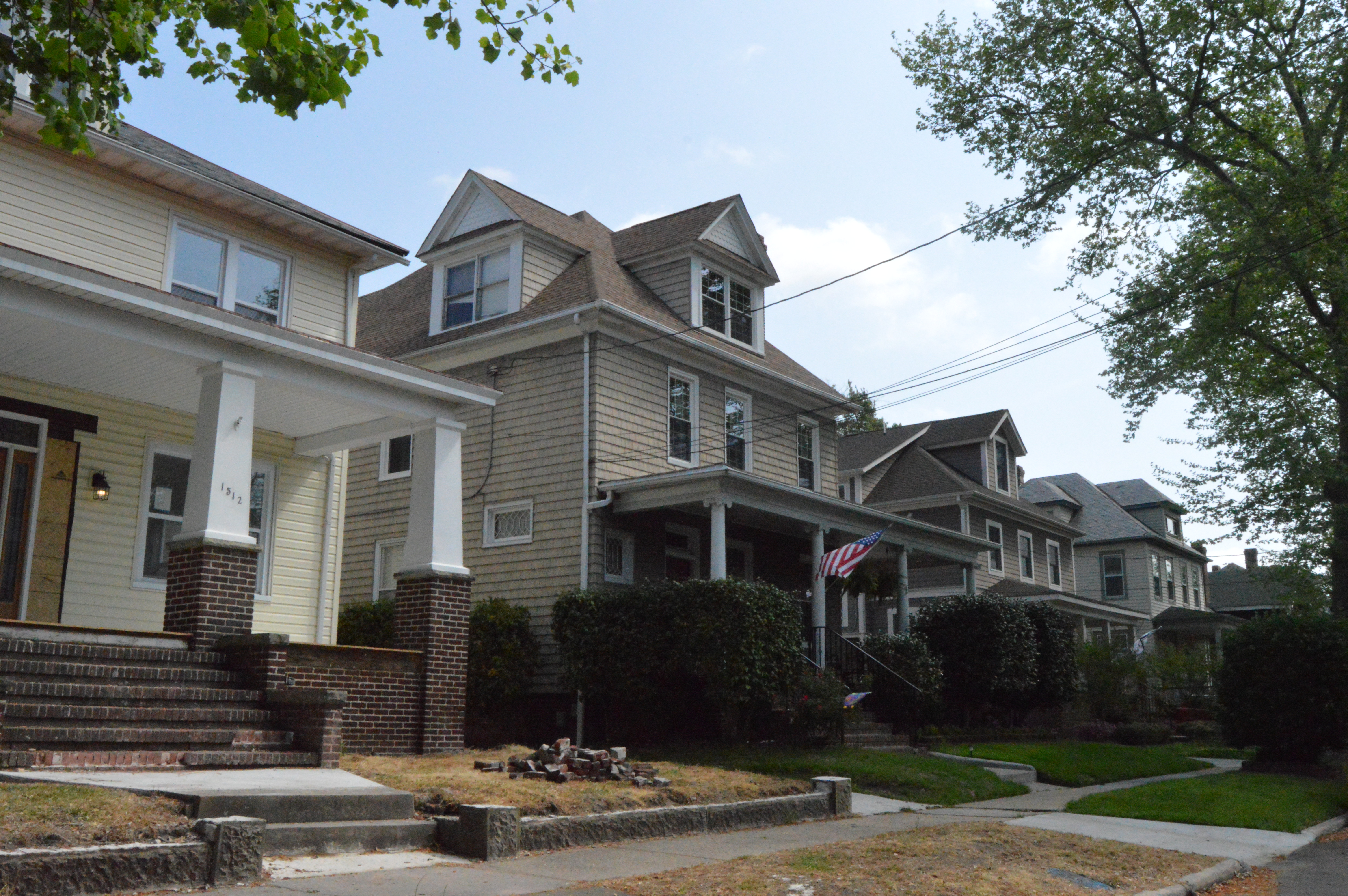 Houses on the northern side of Holland Avenue east of the Huntington Crescent intersection in Norfolk, Virginia, United States. This block is part of the Winona neighborhood, a historic district that is listed on the National Register of Historic Places.